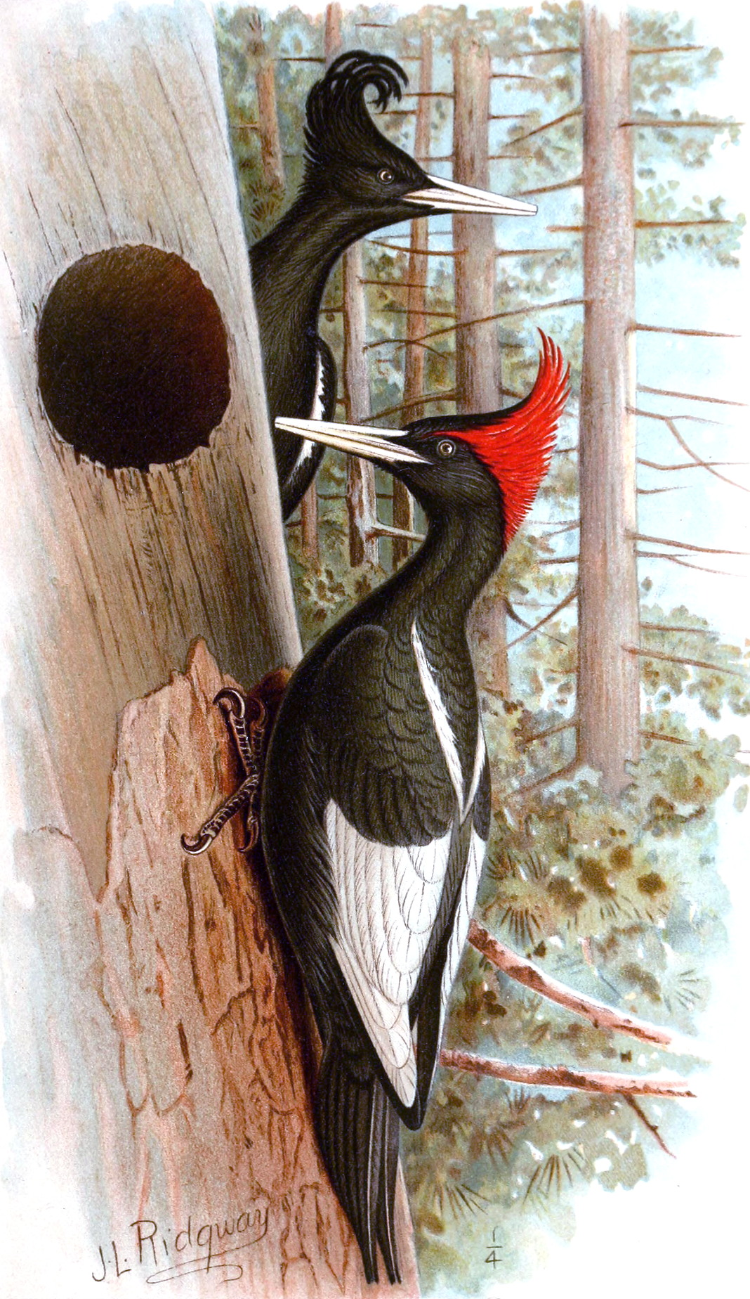 Imperial Woodpecker (Campephilus imperialis), male (below), female (above), chromolithograph